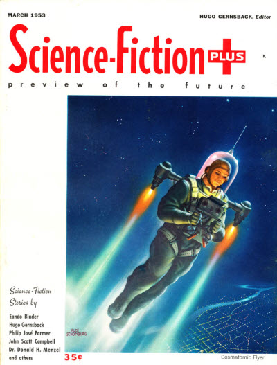 Cover of Science Fiction Plus, March 1953